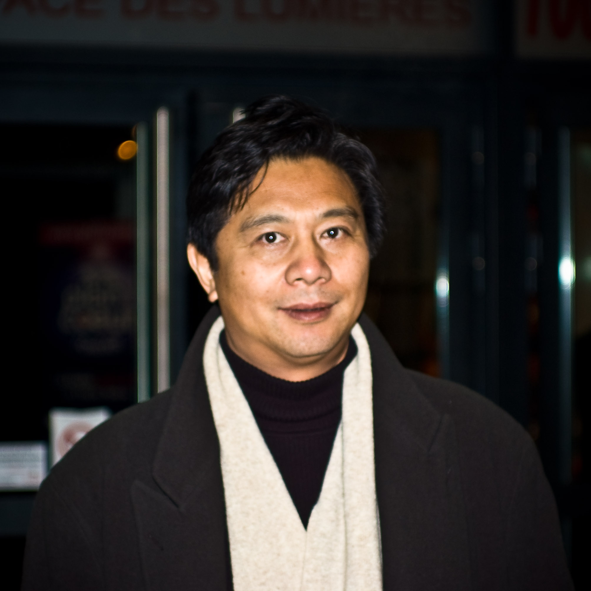 Li Yang (chinese director) during Vesoul international Asian cinema festival, 2009